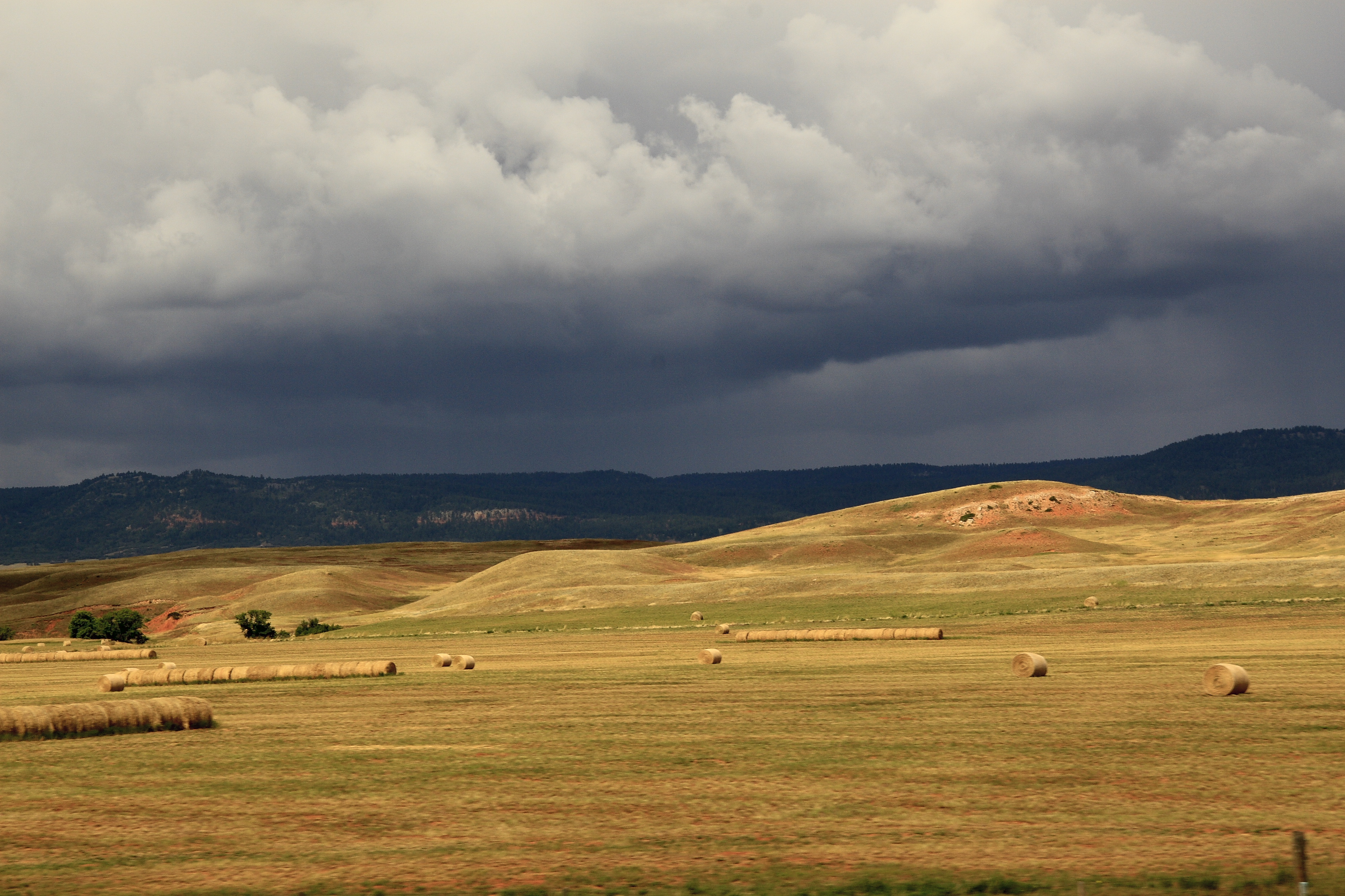 golden grasses set off by the dark clouds, North of Deadwood, South Dakota